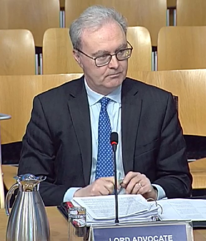 Walter James Wolffe, Queen's Counsel, sits before the Justice Committee of the Scottish Parliament